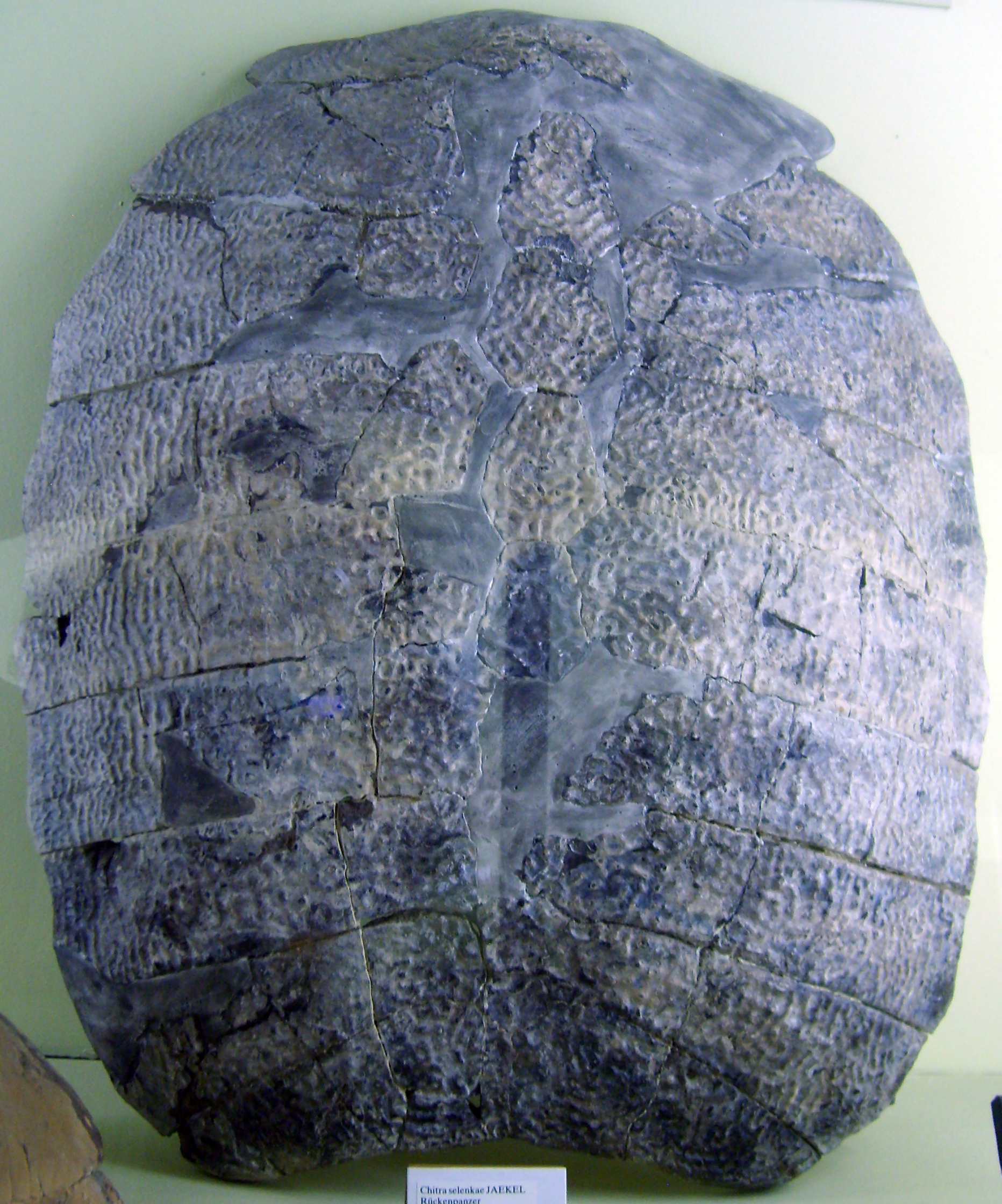 Chitra chitra (syn. Chitra selenkae) shell at the Museum für Naturkunde, Berlin.